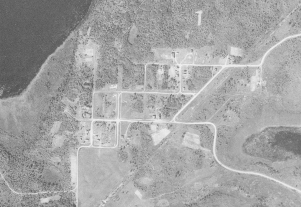 Manganese, Minnesota Aerial Photo, 1939